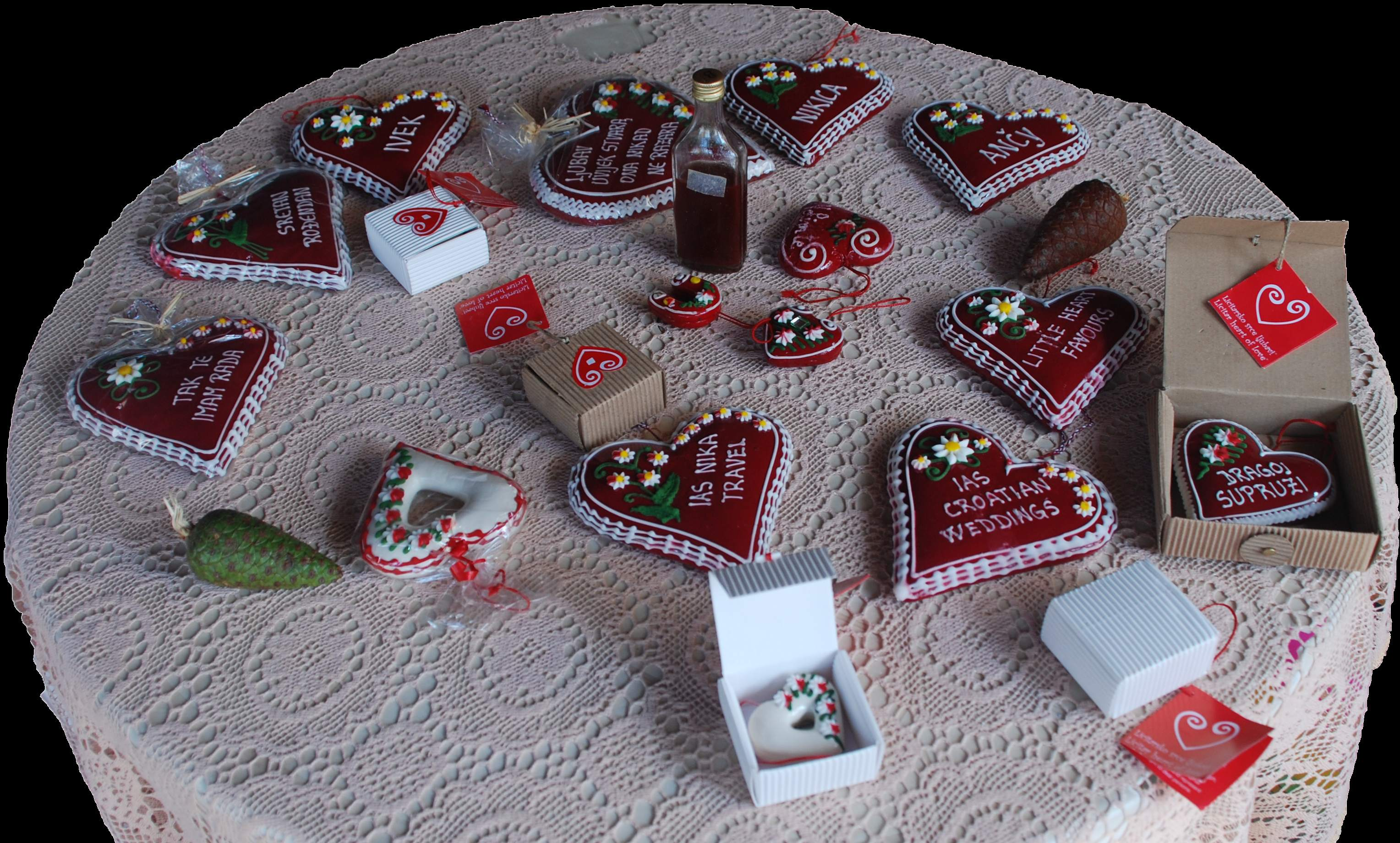 Croatian licitars, picture taken in Croatia, some licitars are customised, some licitars are of "original" design. All licitars were completely handmade using traditions techniques and tools over 50 years old.